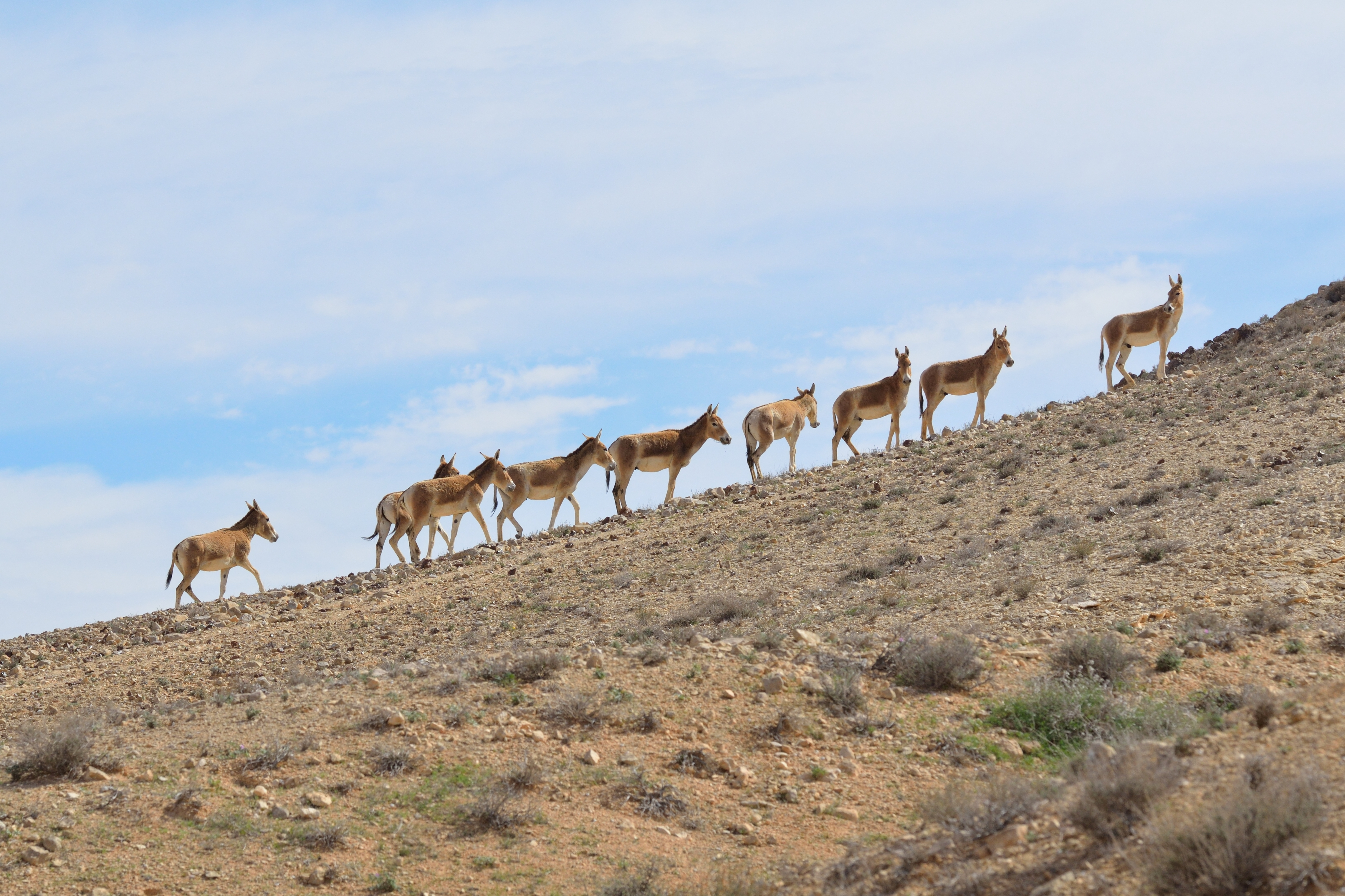 Onagers (Equus hemionus) at Wadi Lotz, Negev Mountains, Israel, February 21, 2014.